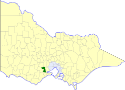 Location of the former Shire of Bannockburn within Victoria.